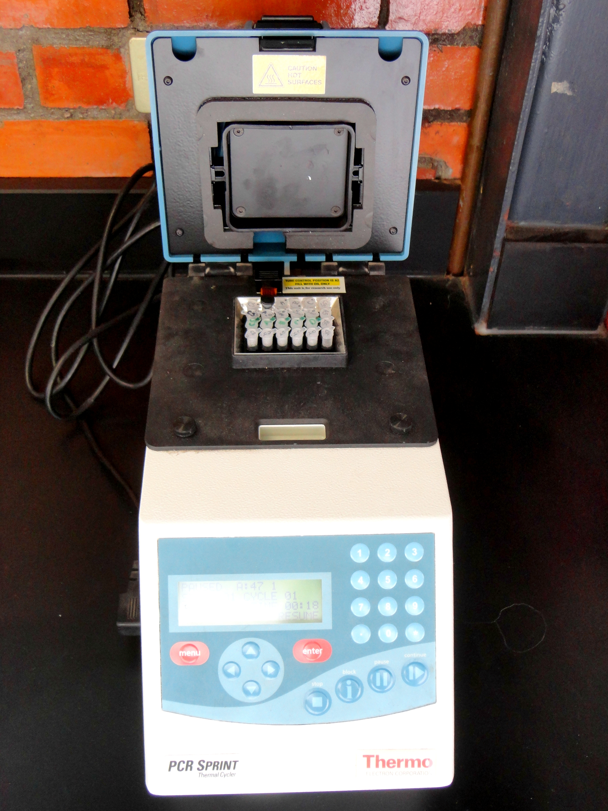 Thermal cycler used to amplify segments of DNA via the polymerase chain reaction (PCR).